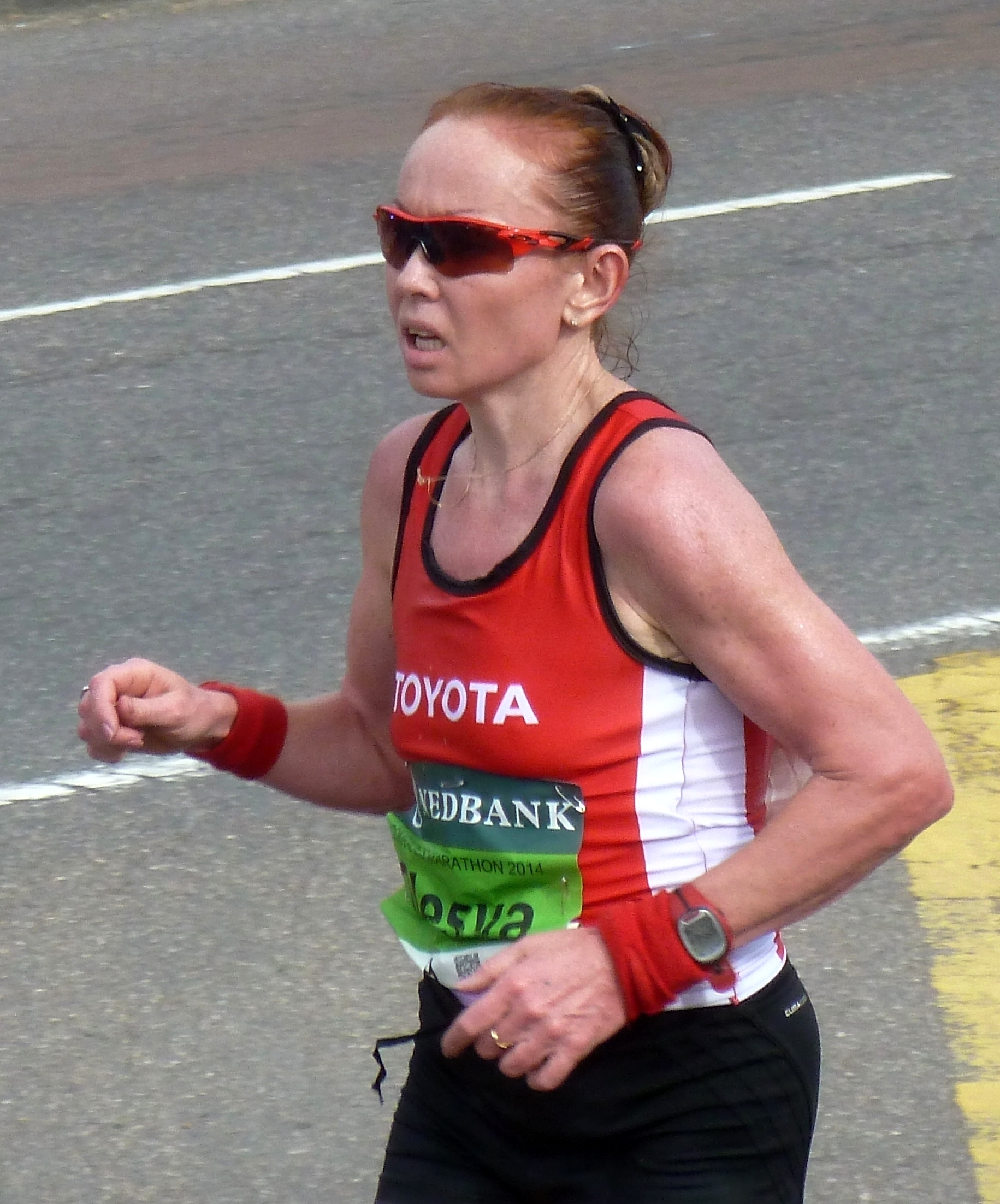 Olesya Nurgalieva running in Pinetown during the Comrades downrun of 2014